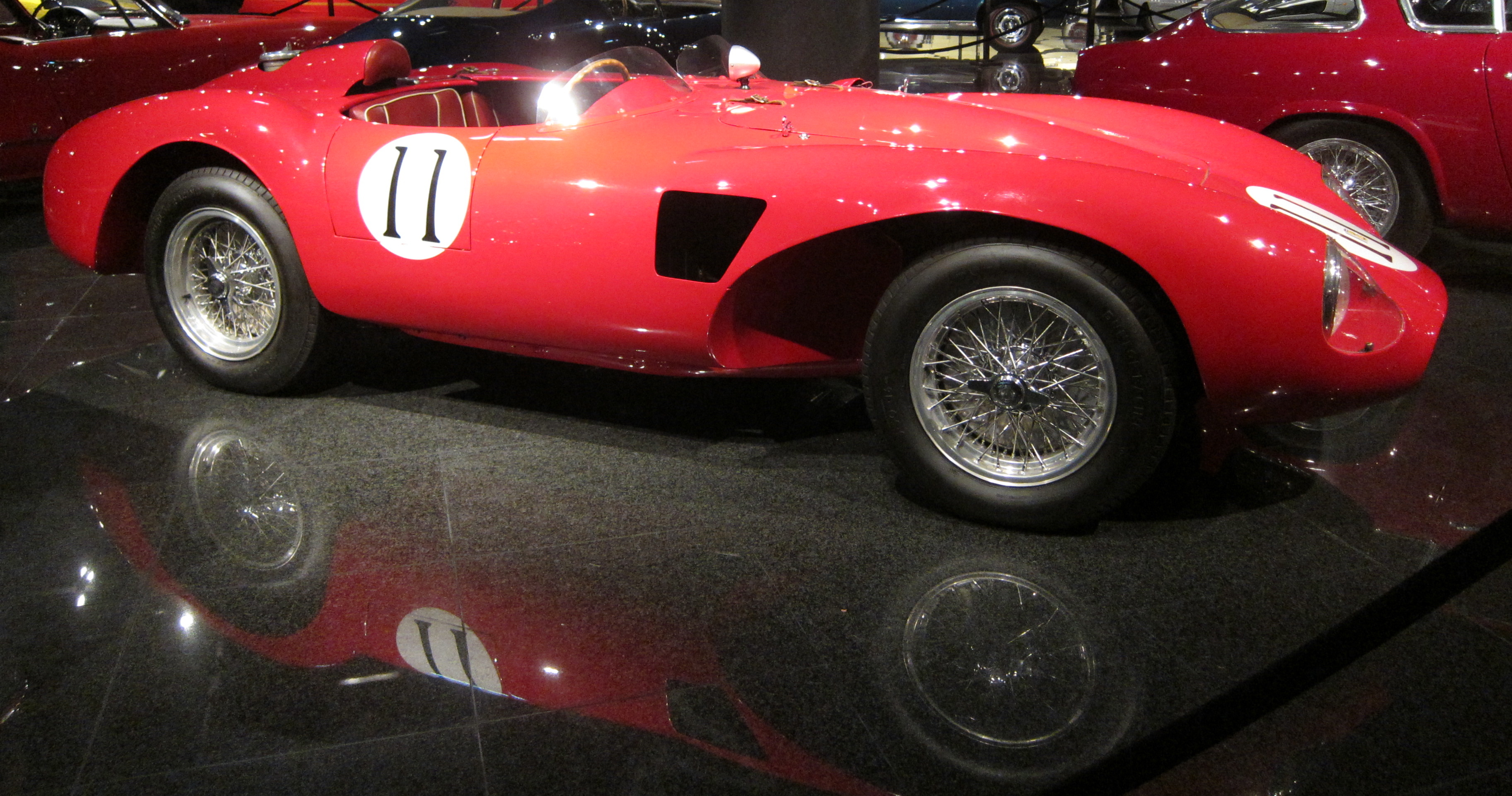 Awesome Behring collection of classic cars. Danville, CA